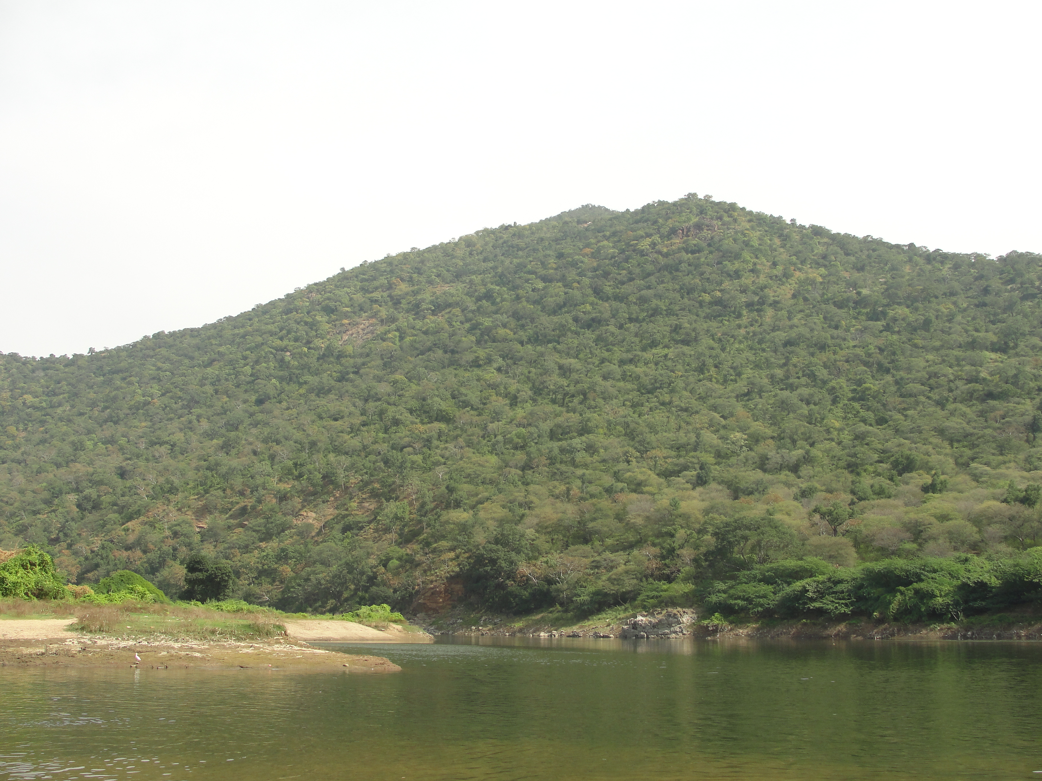 A scene of Hokenakal. Location: Hokenakal, Dharmapuri district, Tamil Nadu, India.